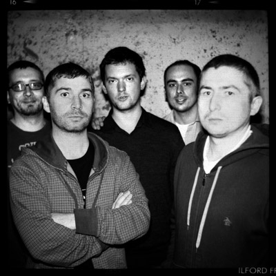 De Rosa, from the November 2008 promotional photographs of the band. I am the photographer and owner of the copyright in this image.